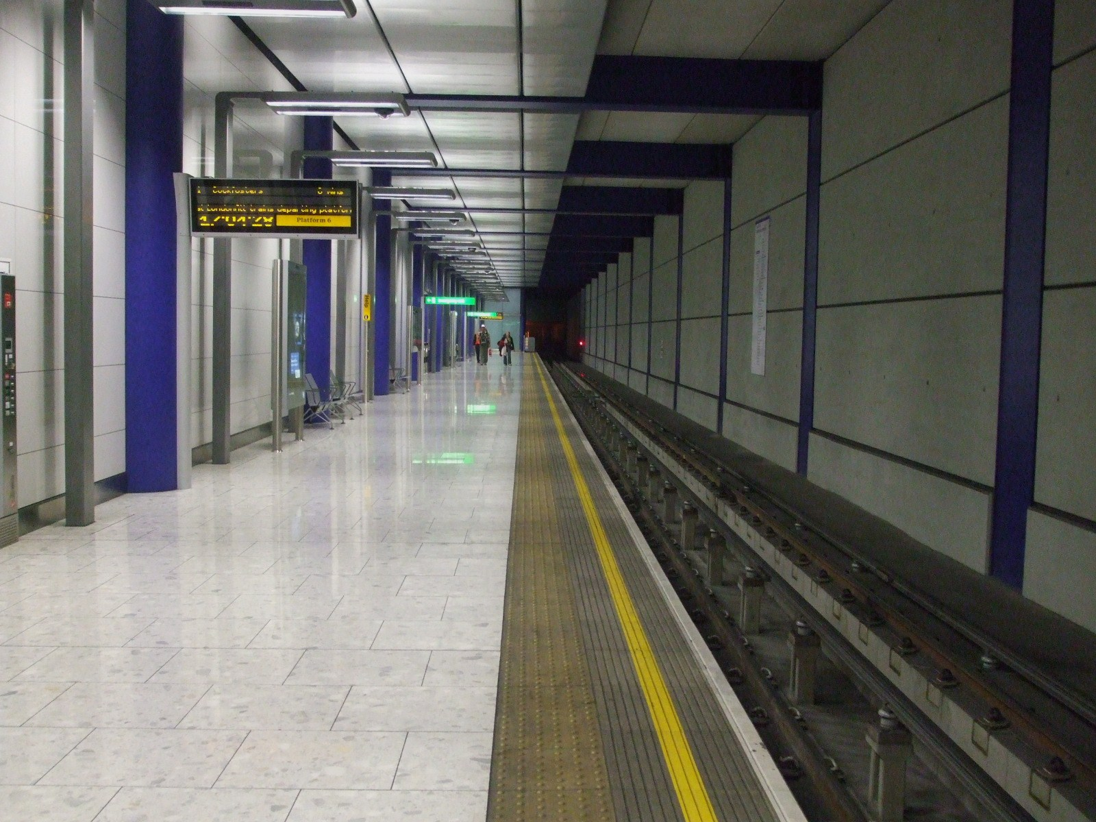 Heathrow Terminal 5 tube station platform 6 looking west. In the distance the run-around loop from platform 5 can be visible.